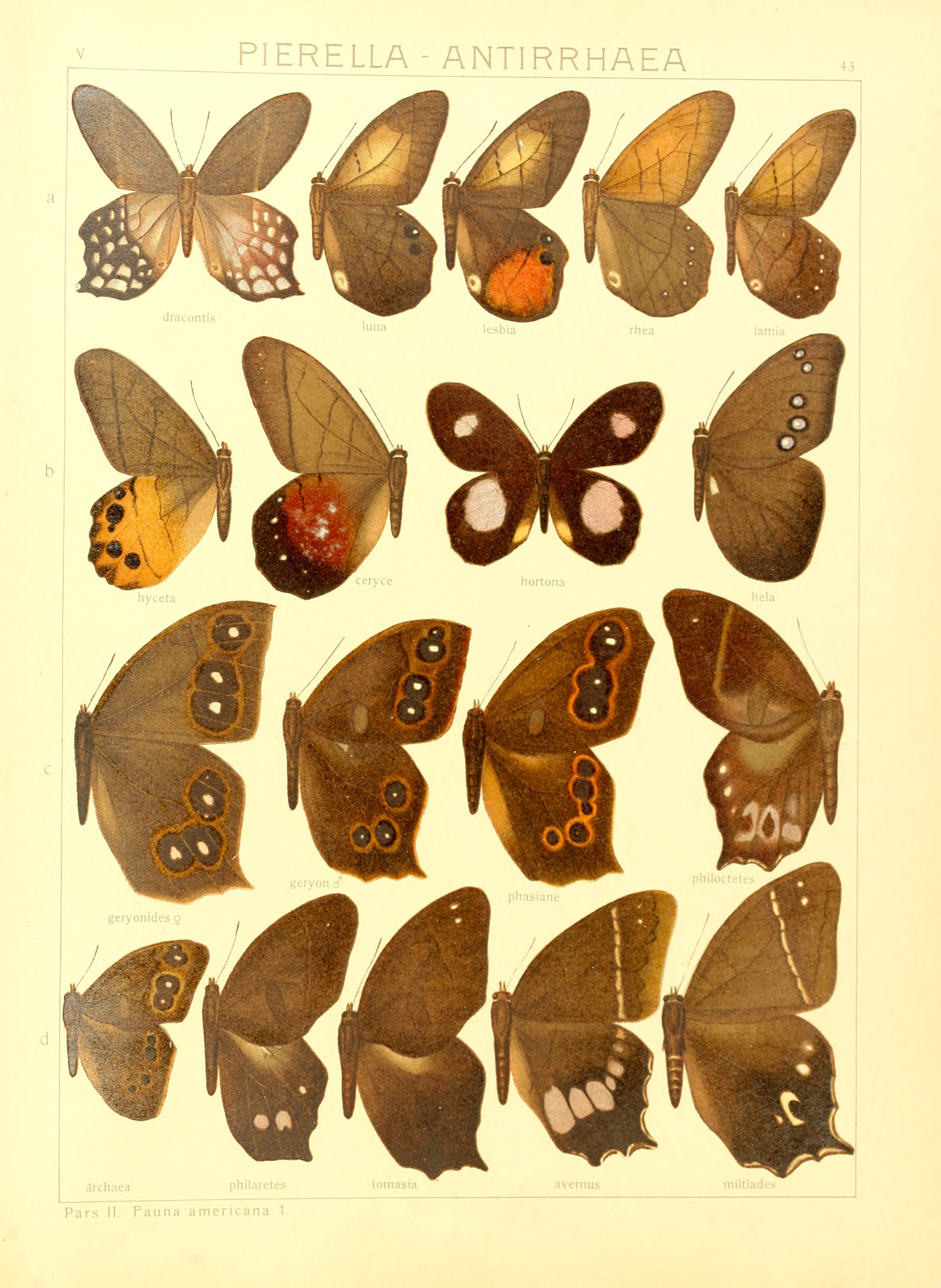 Plate from Seitz, A. ed. ( 1907) Die Großschmetterlinge der Erde, Verlag Alfred Kernen, Stuttgart Band 5: Abt. 2, Die exotischen Großschmetterlinge, Die Großschmetterlinge des amerikanischen Faunengebietes, The Macrolepidoptera of the world : a systematic account of all the known Macrolepidoptera: The Macrolepidoptera of the American faunistic region.Volume 5 part 2 text online read text See The Global Lepidoptera Names Index for valid names Pieris dracontis Hübner, [1819] synonym for Pierella hyalinus hyalinus (Gmelin, [1790]) Pierella luna (Fabricius, 1793) Pierella luna lesbia Staudinger, 1887 Papilio rhea Fabricius, 1775 synonym for Pierella lamia lamia (Sulzer, 1776) Pierella hyceta (Hewitson, 1860) Pierella hyceta ceryce (Hewitson, 1874) Pierella hortona (Hewitson, 1854) Antirrhea hela C. & R. Felder, 1862 Antirrhea geryon geryonides Weymer, 1909 Antirrhea geryon C. & R. Felder, 1862 Antirrhea phasiane Butler, 1870 Antirrhea philoctetes (Linnaeus, 1758) Antirrhea archaea Hübner, [1822] Antirrhea philoctetes philaretes C. & R. Felder, 1862 Antirrhea philoctetes tomasia Butler, 1875 Antirrhea philoctetes avernus Hopffer, 1874 Antirrhaea miltiades synonym for Antirrhea philoctetes lindigii C. & R. Felder, 1862